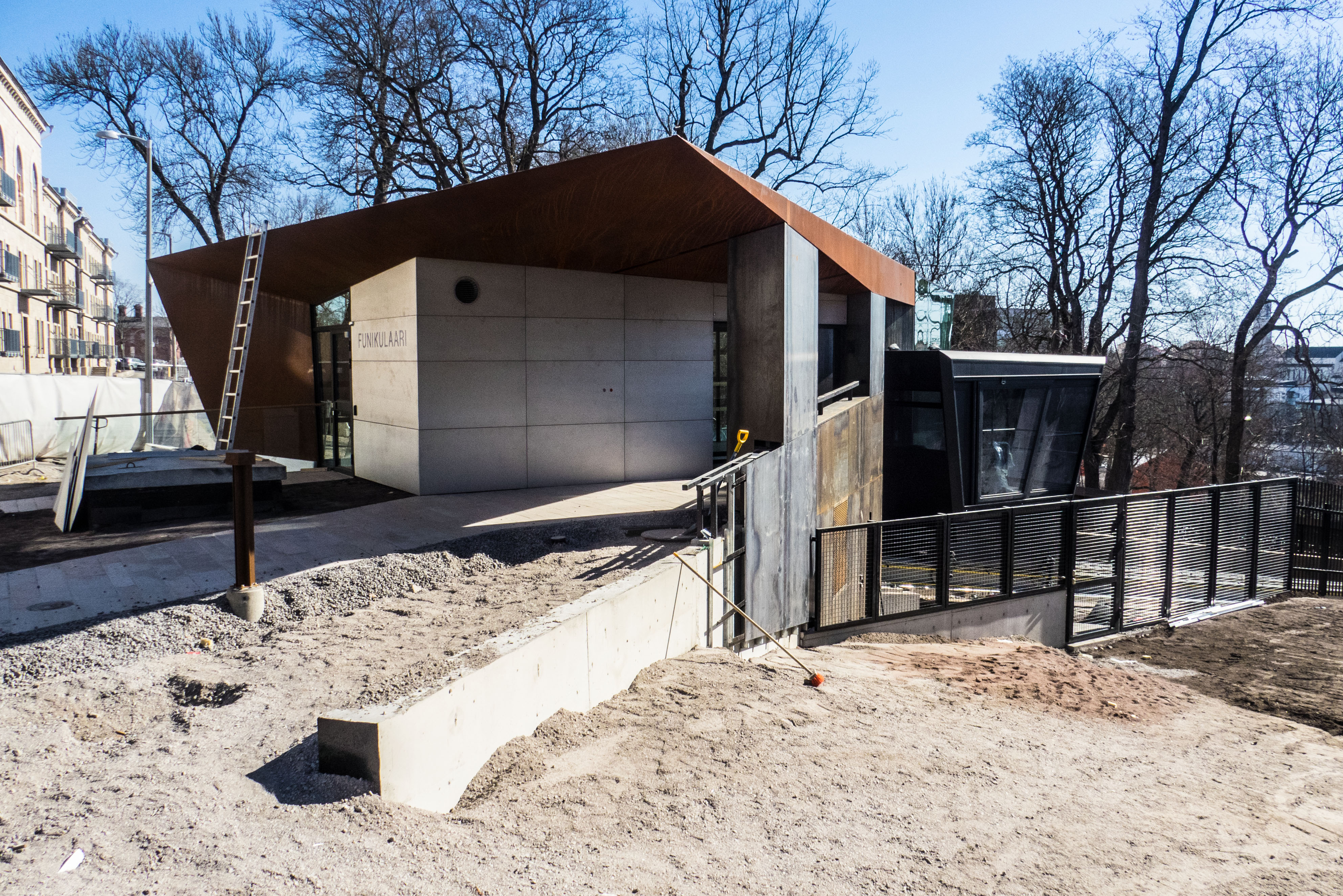 Kakola funicular, still unfinished, April 21, 2019, Turku, Finland